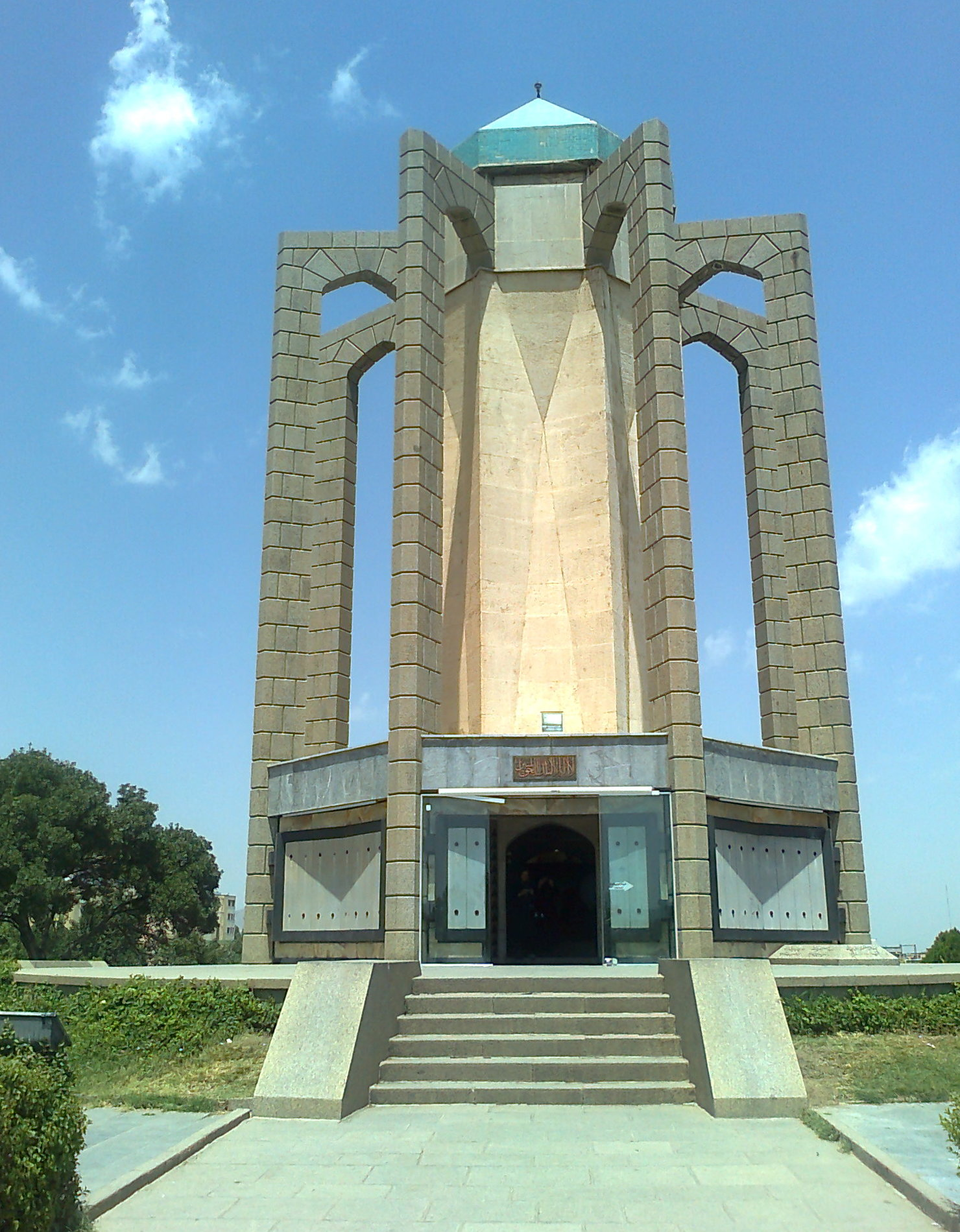 Tomb of Baba Taher